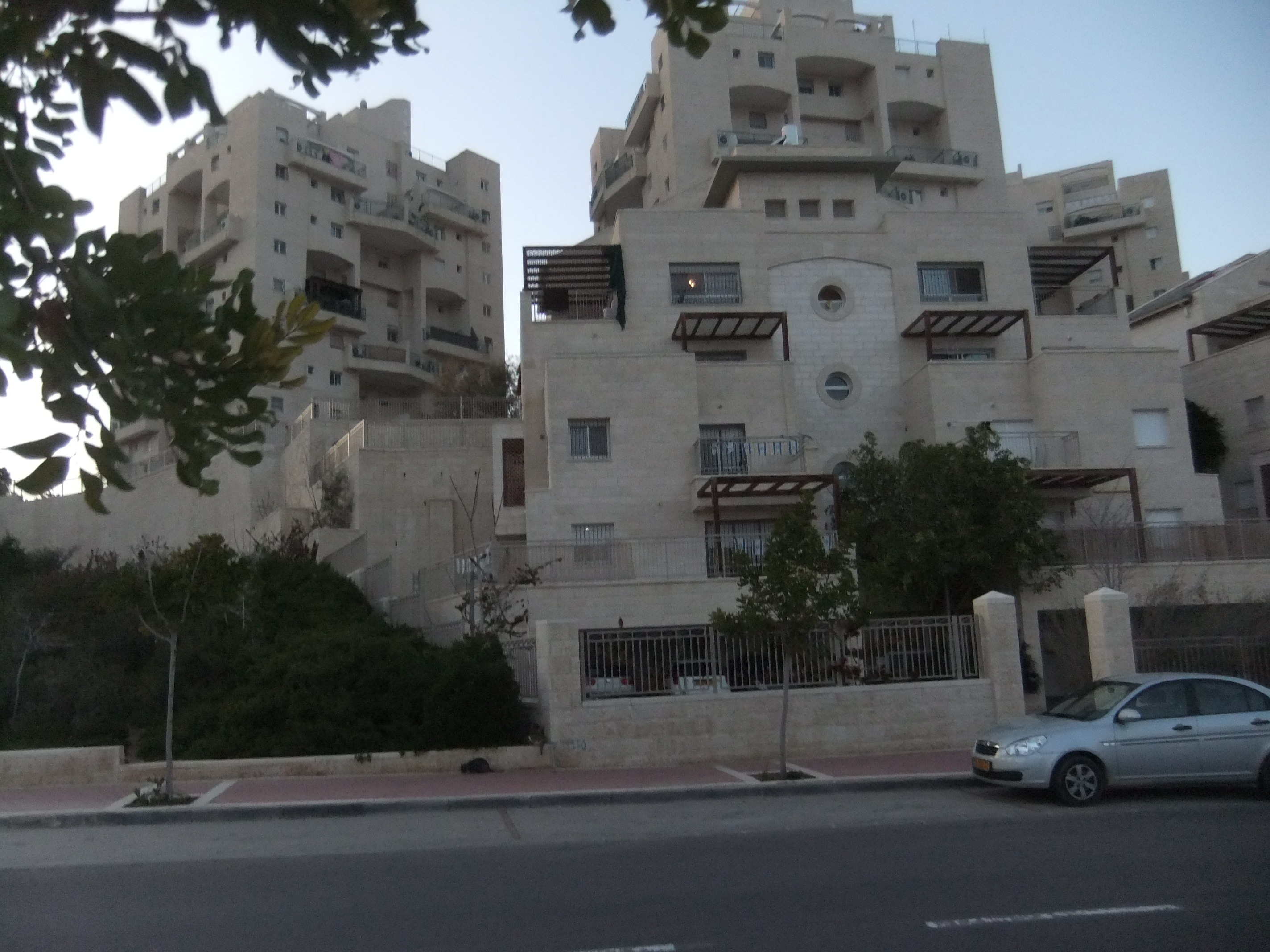 Ma'ale Adumim, Nofei HaSela